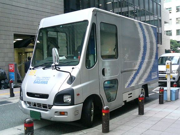 Sagawa Express truck(Isuzu Begin)